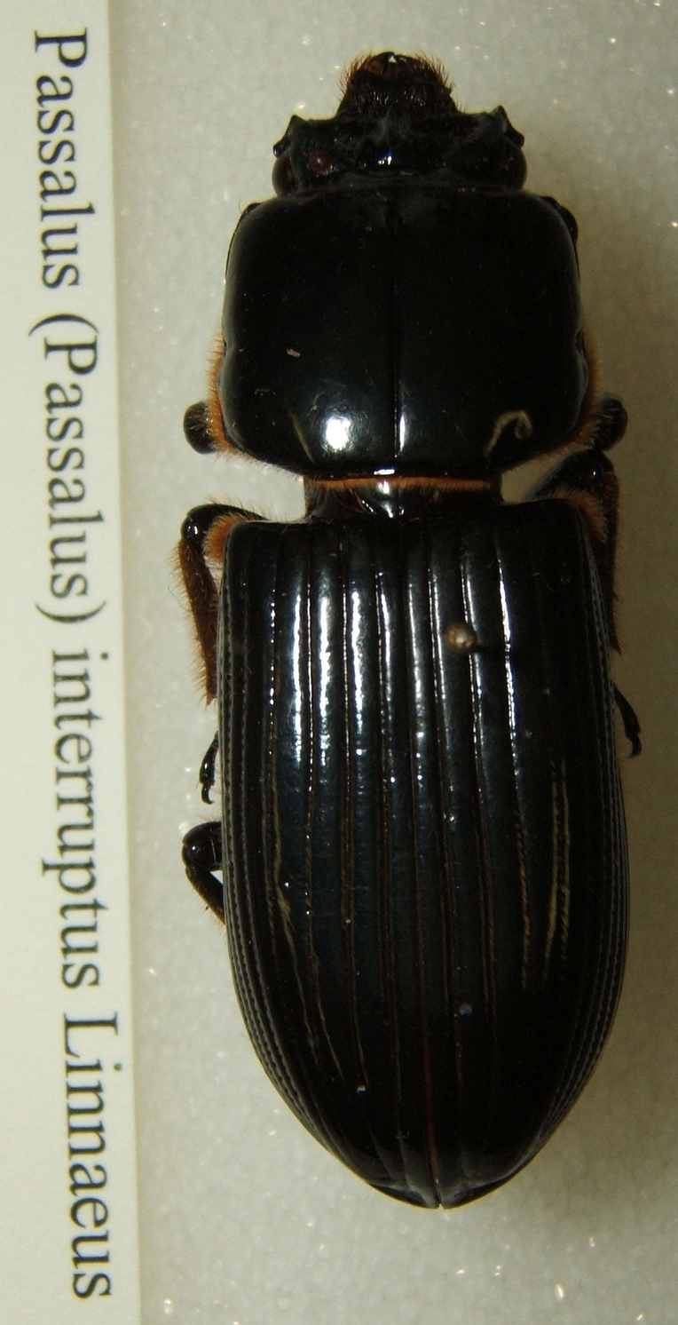 Passalus interruptus adult taken by Shawn Hanrahan at the Texas A&M University Insect Collection in College Station, Texas.